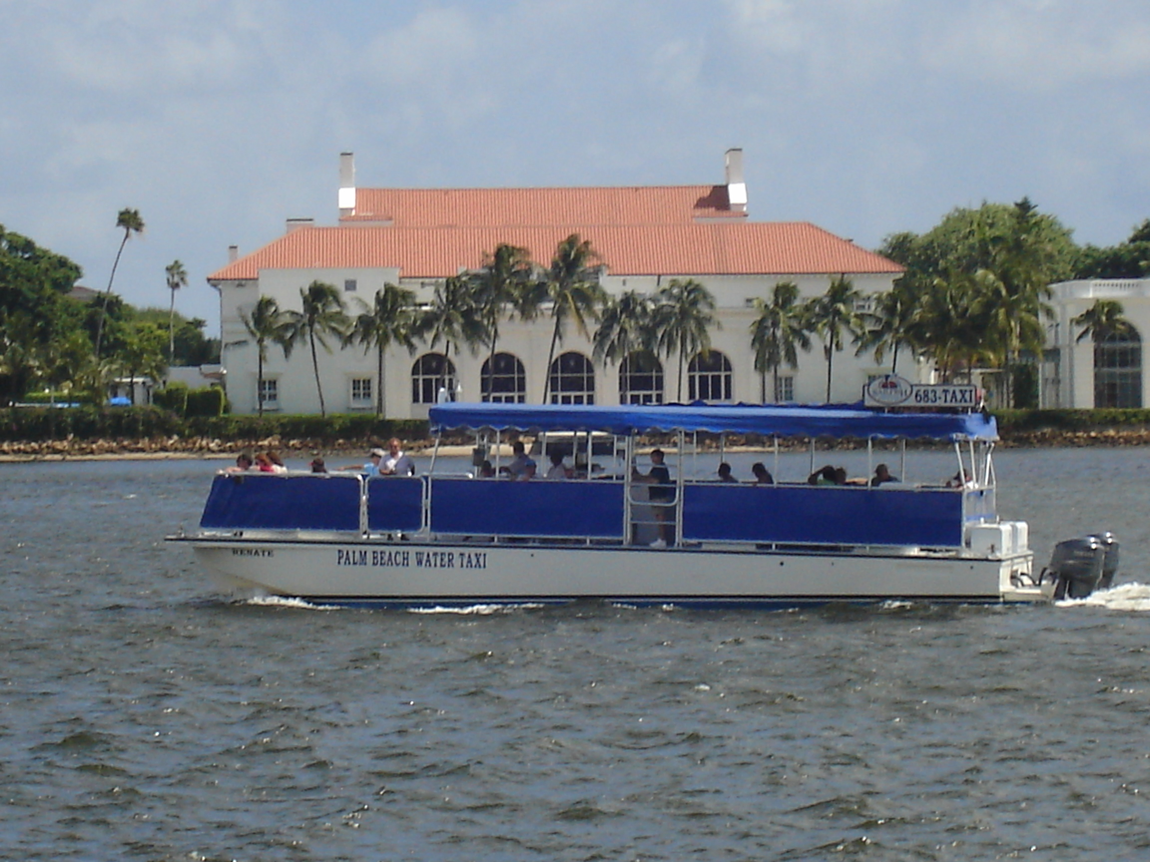 Water Taxi along the Intercoastal